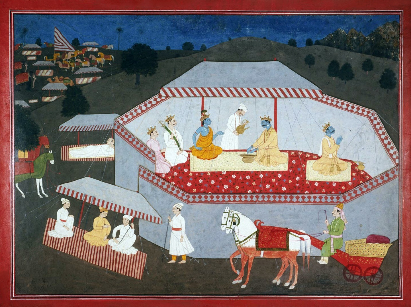 The Pandava prince Arjuna chooses to have the unarmed Krishna as his charioteer rather than the reinforcement of Krishna's large army. The Krishna's large army is chosen by the Kaurava prince Duryodhana. As the sky turns from gray to azure, and the army begins to wake, Arjuna confirms his decision by a solemn vow and water is poured over his hands as ritual witness.